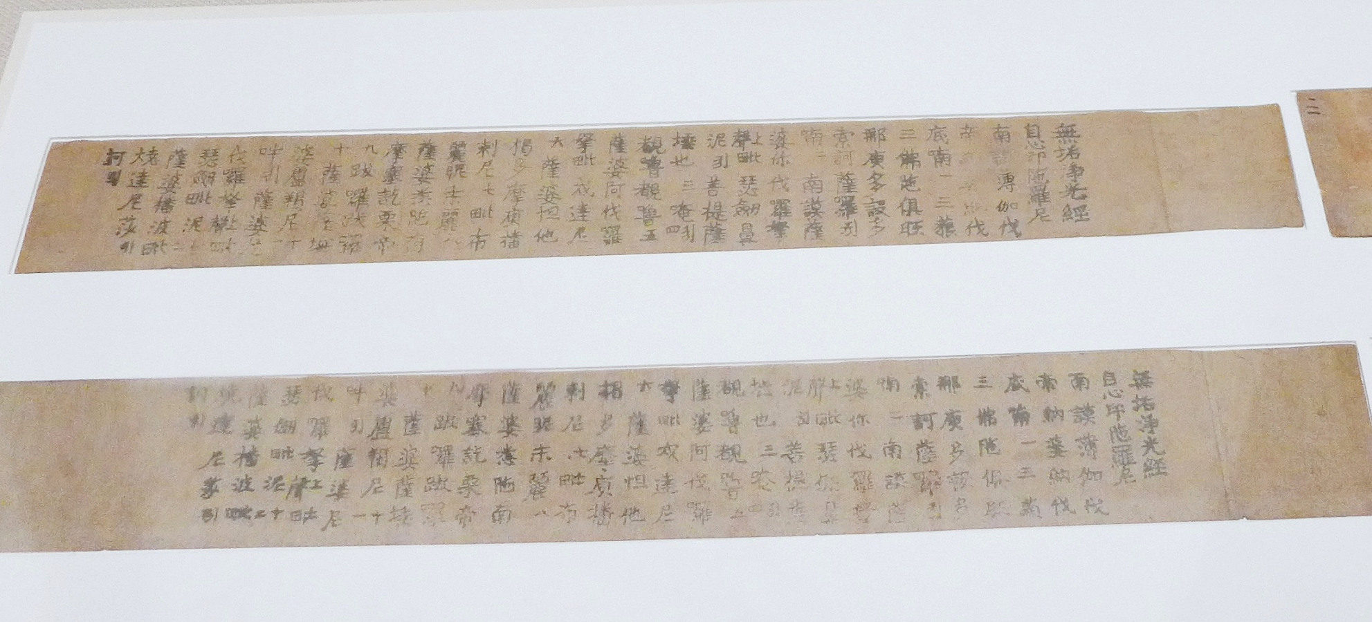 Printed Sutras in some ONE MILLION PAKODAs, Ink Print on Paper, ACE756, 5.4cm height and 5.9cm height, Tokyo National Museum, Tokyo, Japan